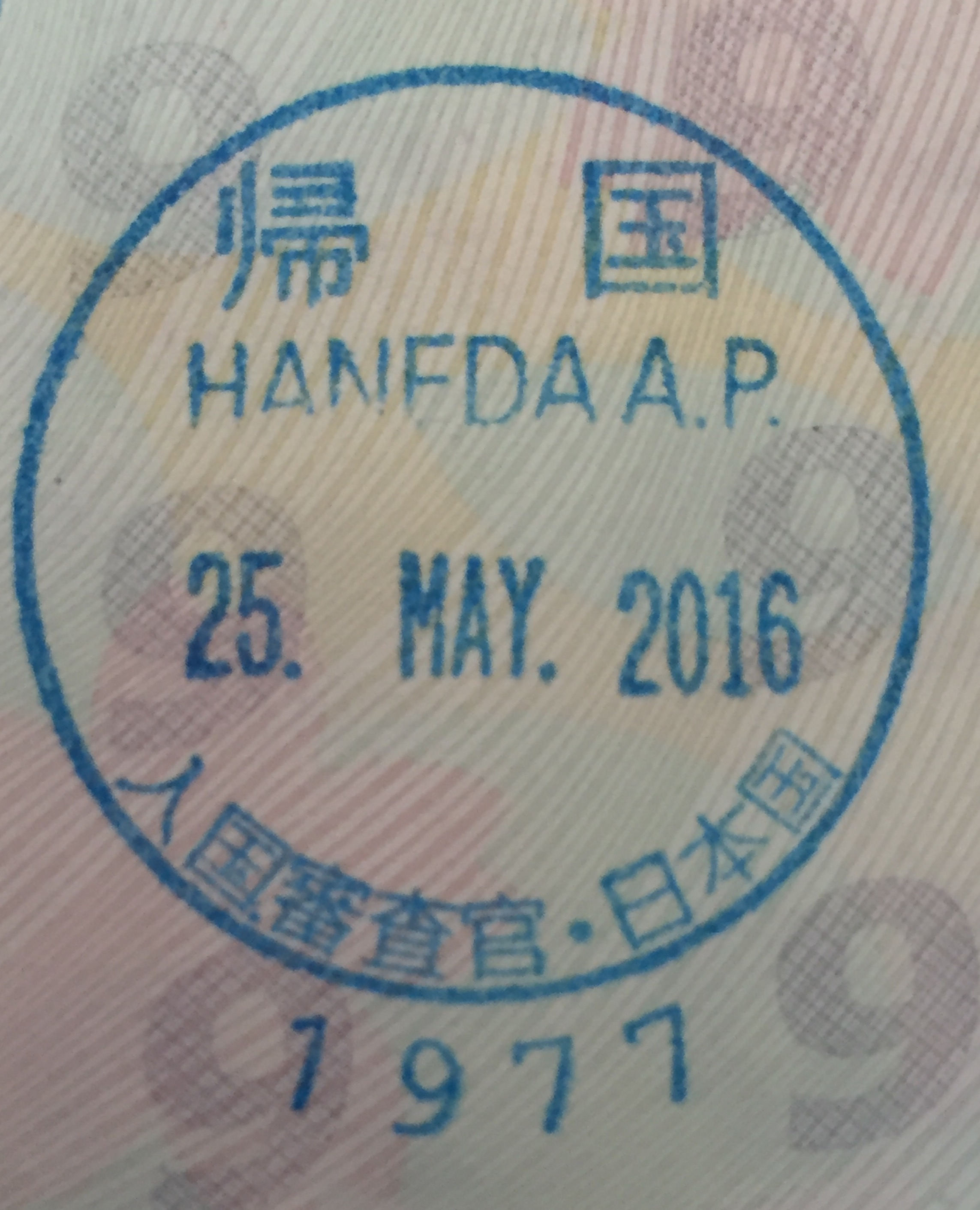 Return stamp for a Japanese citizen at Haneda Airport